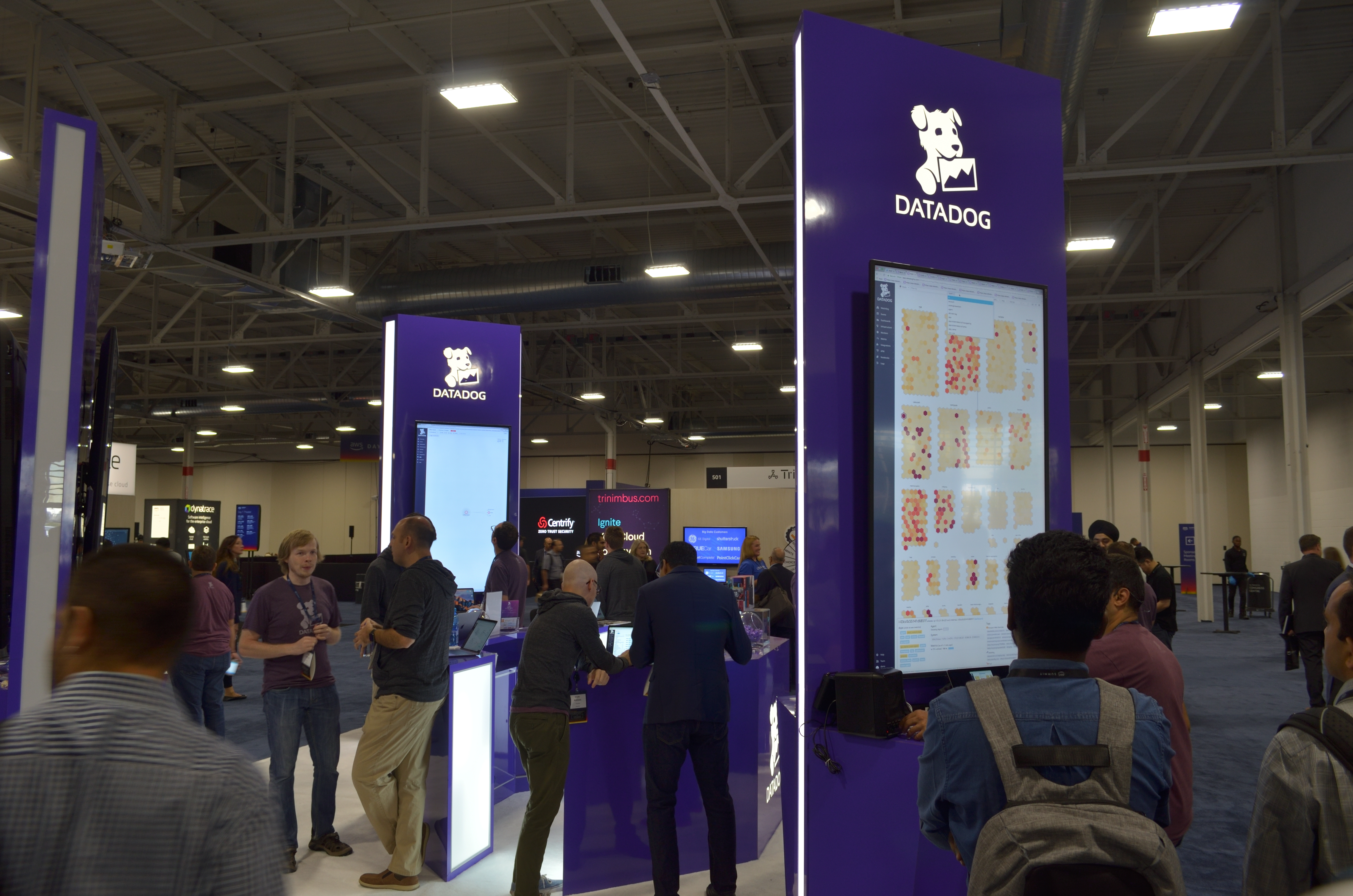 Datadog at AWS Toronto Summit 2018